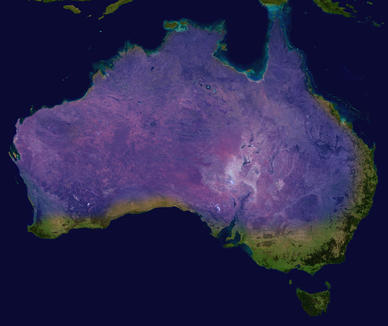 Range of the King Brown aka Mulga Snake.